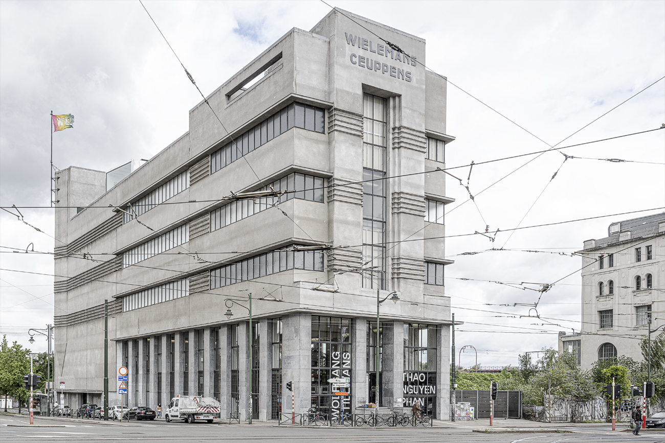 Wiels Museum Brussels Deitsch: Museum Wiels in Brüssel